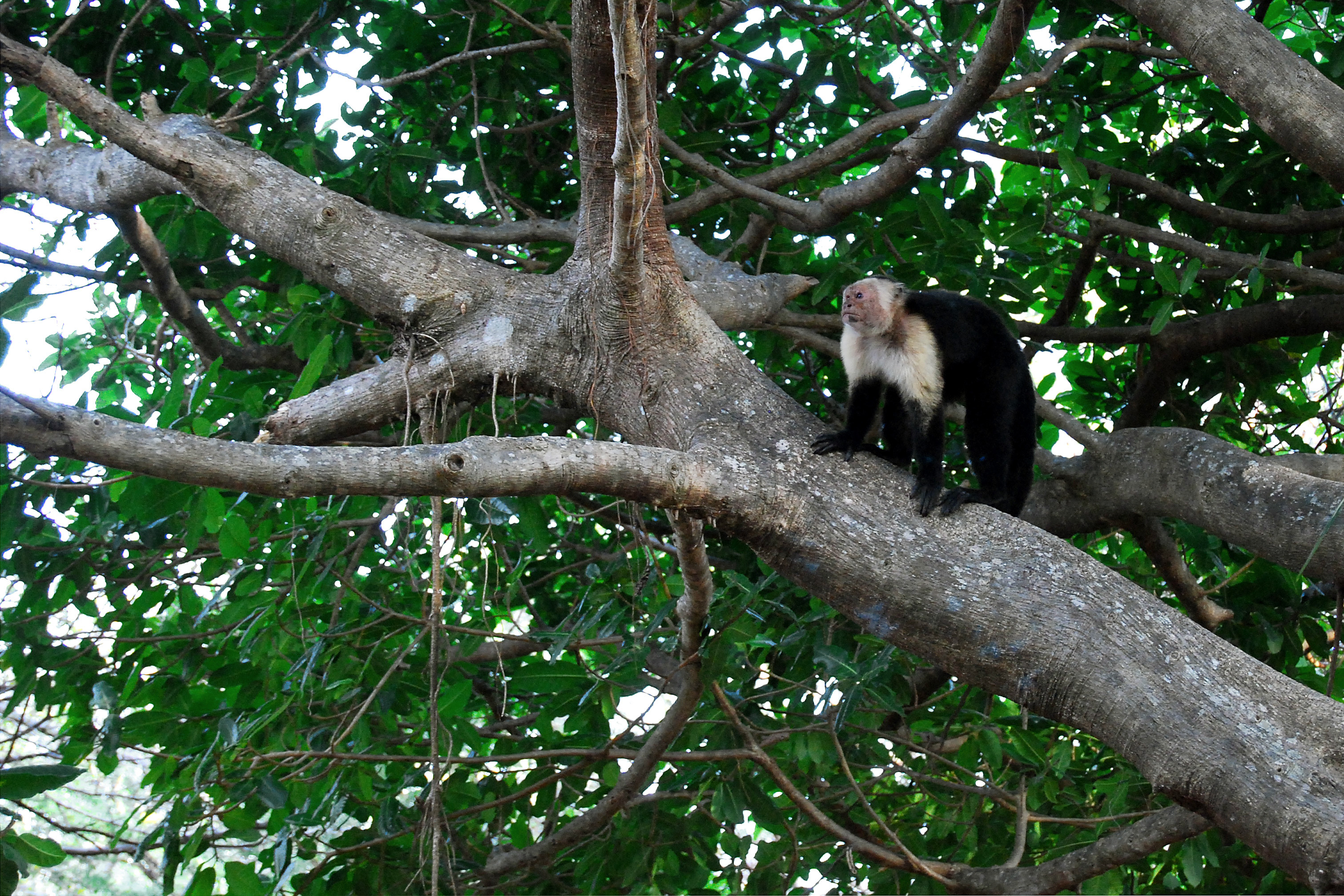 Cebus capucinus — White fronted capuchin monkey; (Cebidae). In Santa Rosa National Park, Guanacaste Province, northwestern Costa Rica.